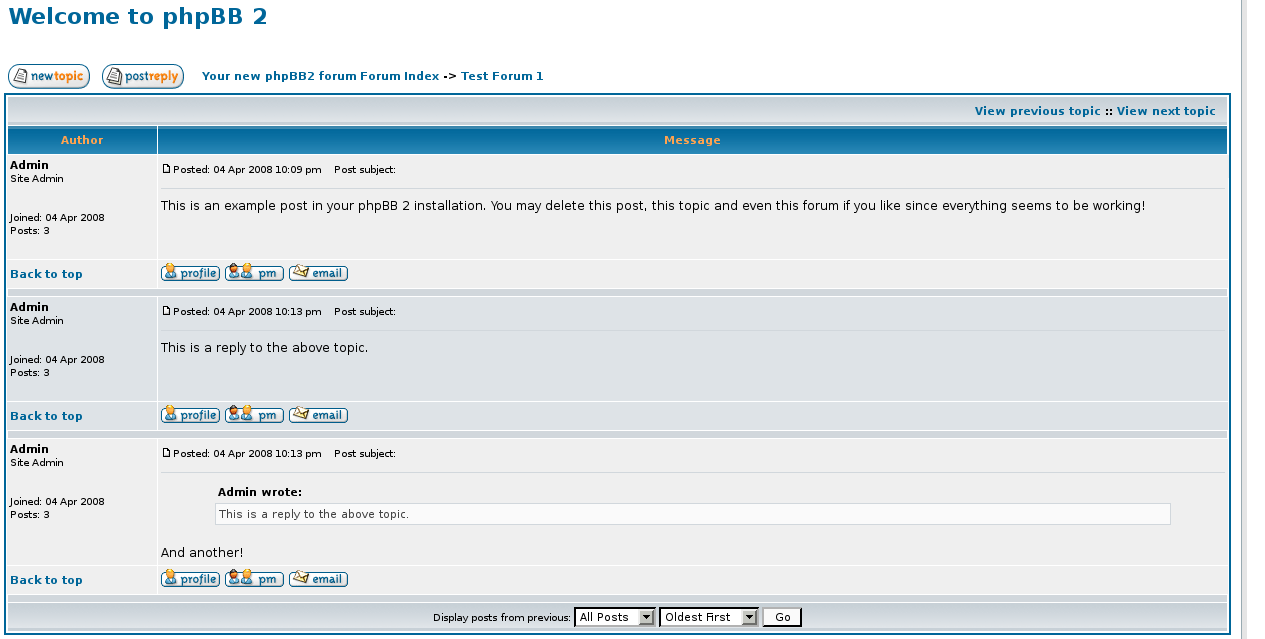 Screenshot of the default phpBB thread that appears when a site is first started. Taken for use in the article Threaded discussion